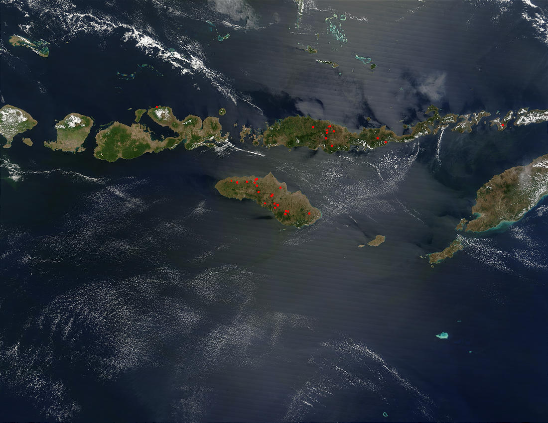 The Lesser Sunda Islands, with a number of fires marked with red dots. Satellite image from Terra / MODIS.